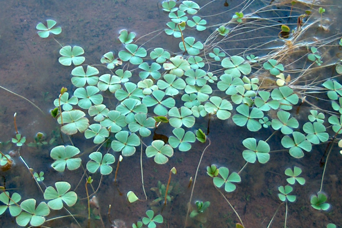 Scientific Name: Marsilea vestita Hook. & Grev. Common Name: Hairy Water Clover Certainty: positive (notes) Location: Desert Southwest; Utah; Escalante; Hole-in-the-Rock Date: 20060417